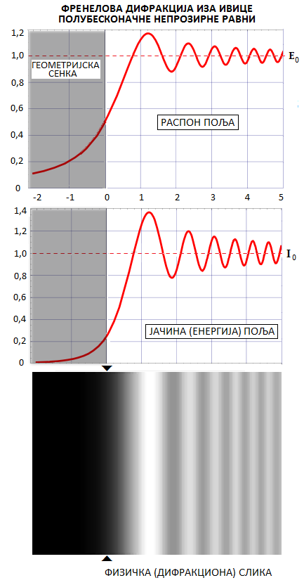 ДИФРАКЦИЈА ИЗА РАВНЕ ИВИЦЕ